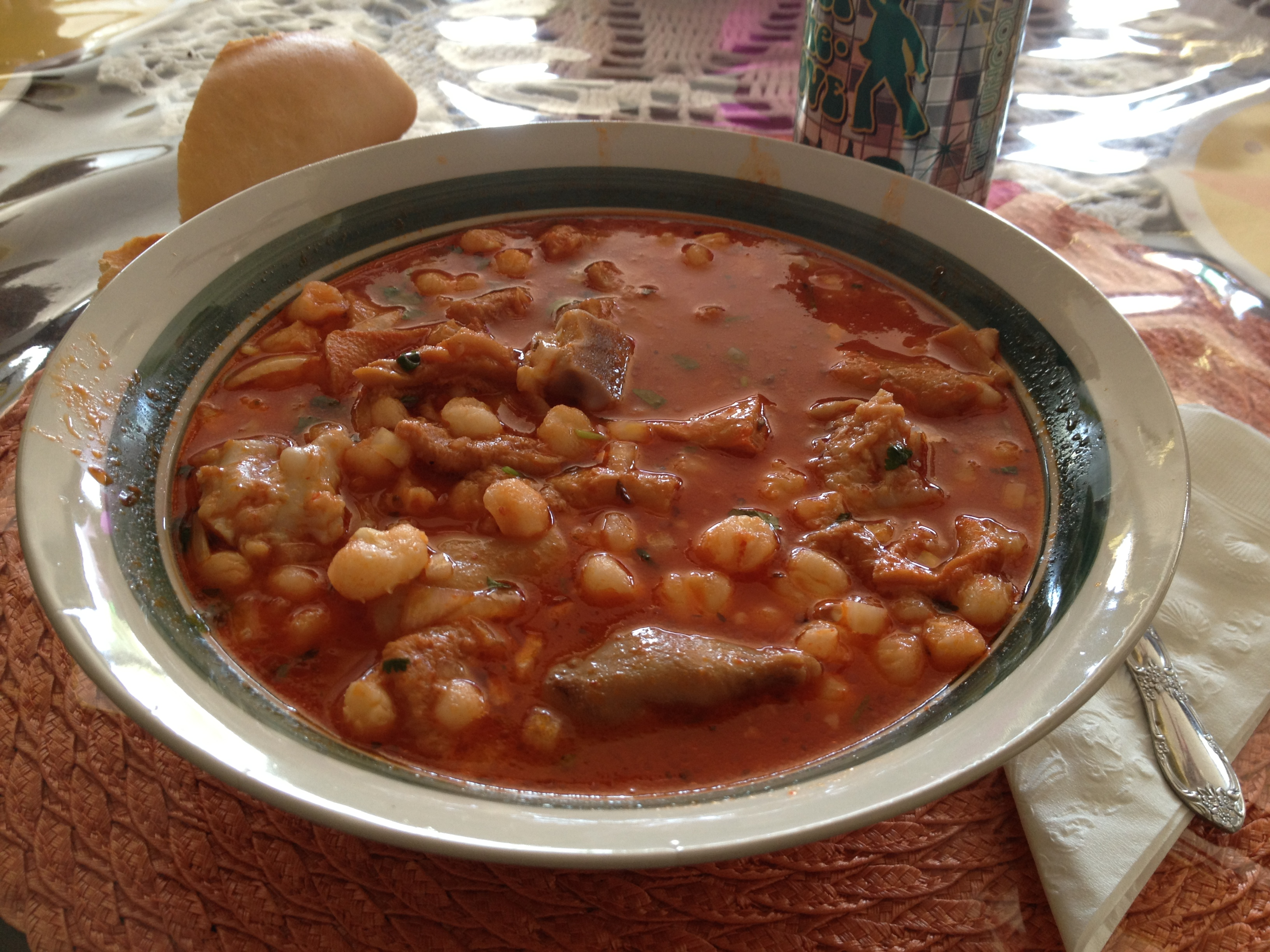 Menudo, a typical Mexican soup made with tripe, hominy, and chile. The version with hominy is typical of northern Mexico and the Southwestern U.S.